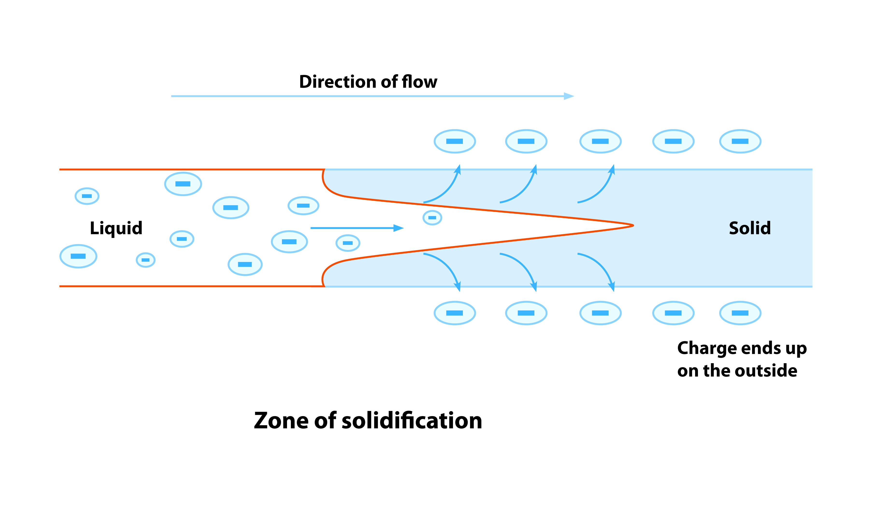 As an electrospun fibre dries out in flight, the charge migrates to the outer surface